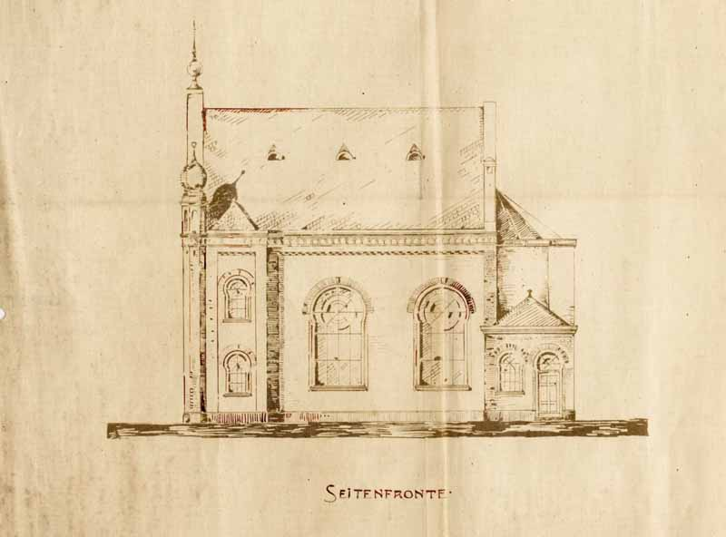 Synagogue of Höchst (Hessen) - 1905-1938. Architect's drawing